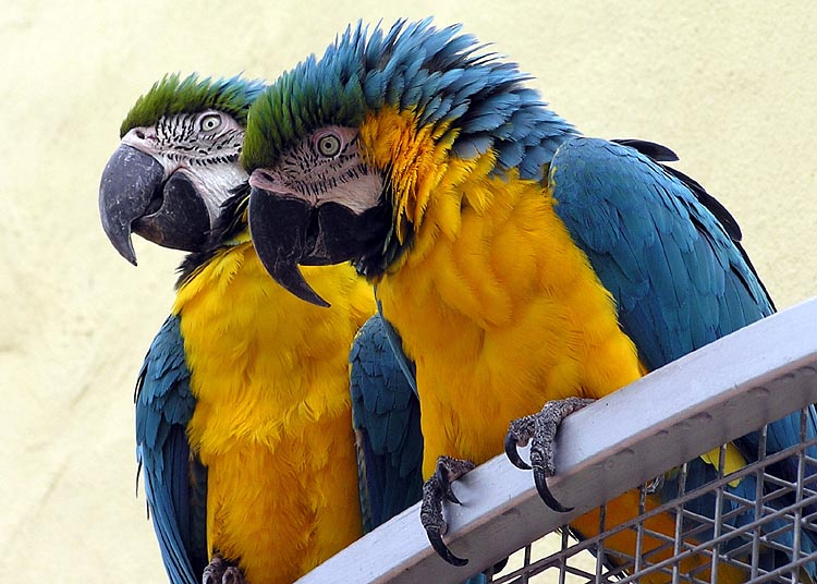 Blue and Yellow macaws at Combe Martin Wildlife and Dinosaur Park, North Devon, England. Taken by Adrian Pingstone in July 2004 and released to the public domain. Image:Macaw.blueyellow.arp.750pix.jpg